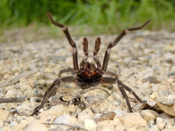 Acanthoscurria gomesiana, defensive threat display by male.